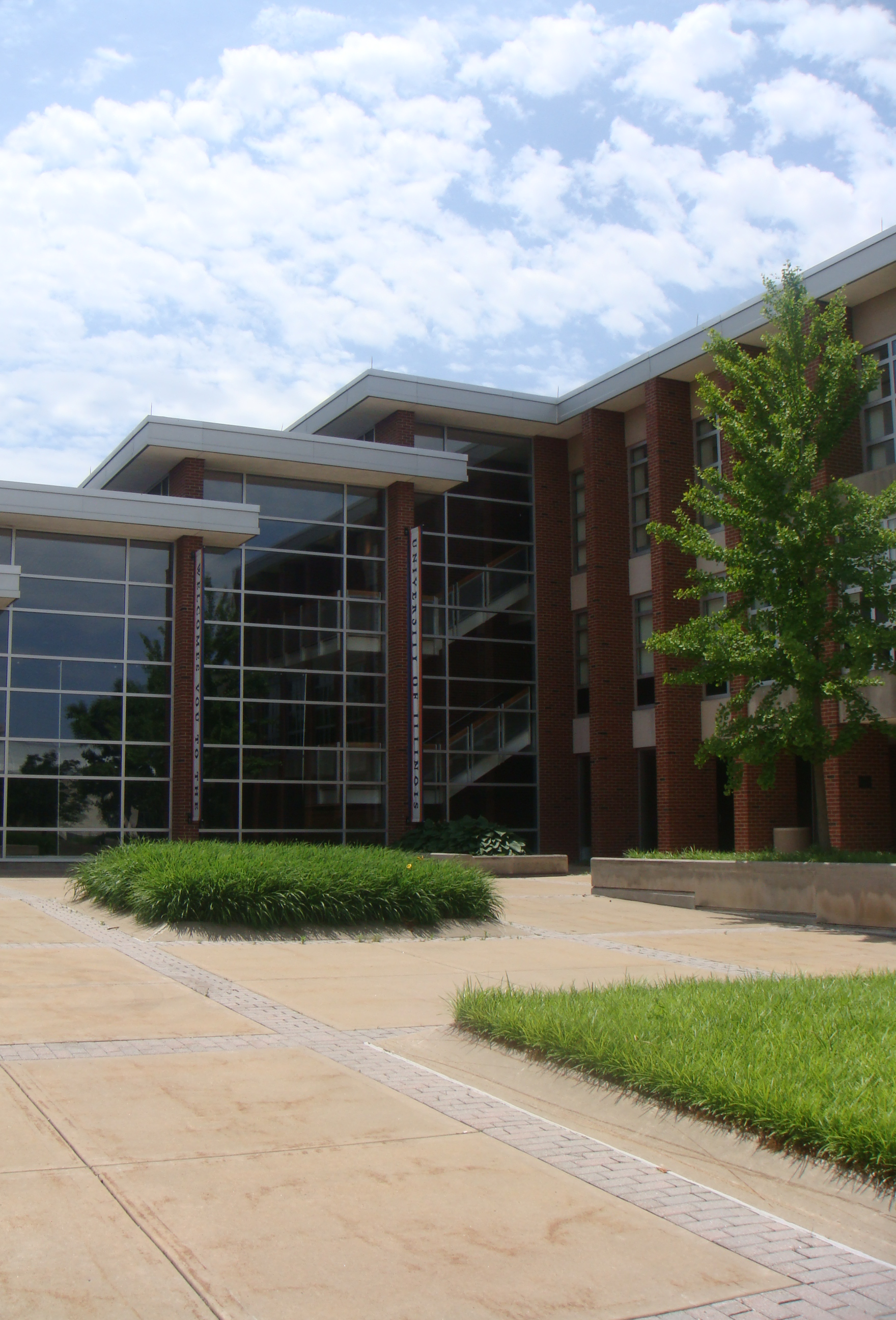 Image depicting the paved patio area behind the College of Law